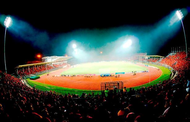 Stadium Negeri, Petra Jaya, during a Malaysia Cup Semi Finals game, Sarawak FA vs Pahang FA in 2013